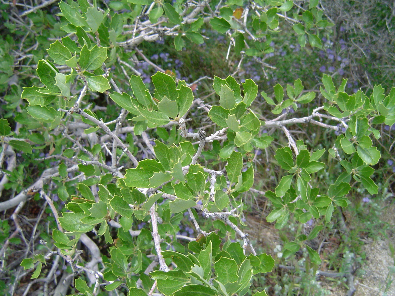 A California Scrub Oak — Quercus berberidifolia. Found on the leeward side of the San Jacinto Mountains, Riverside County, California.